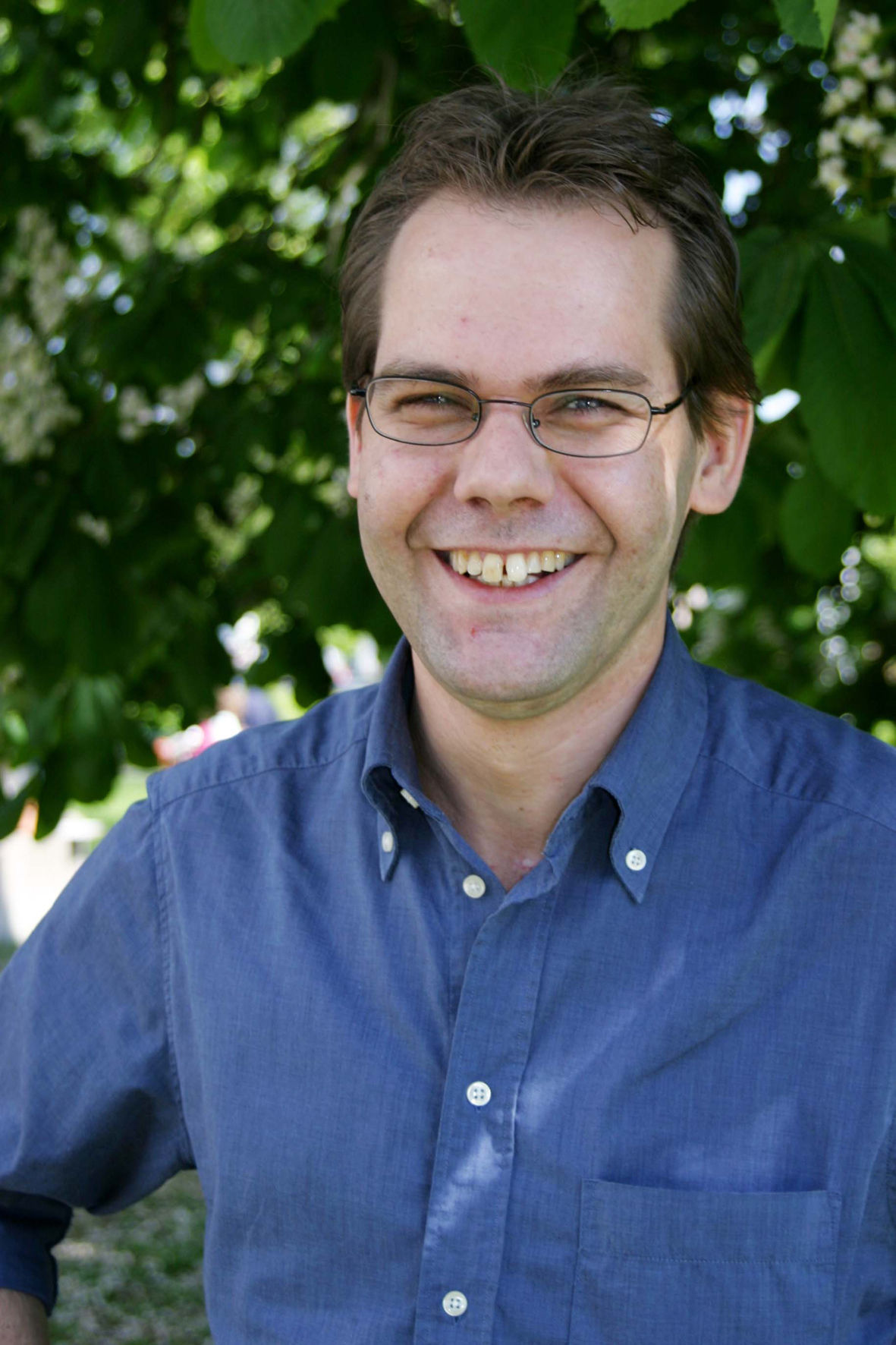 Ulf Holm, riksdagsledamot för Miljöpartiet.